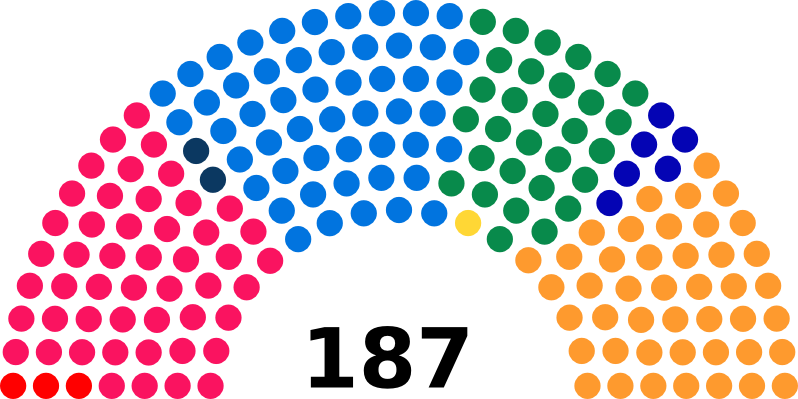 Seats diagramme of Swiss National Council (1931)